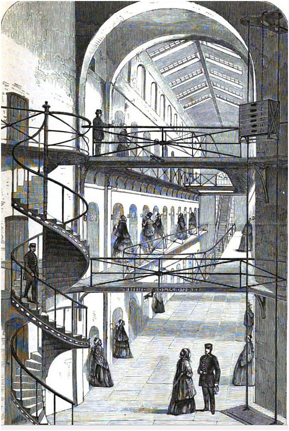 Interior of Clerkenwell prison